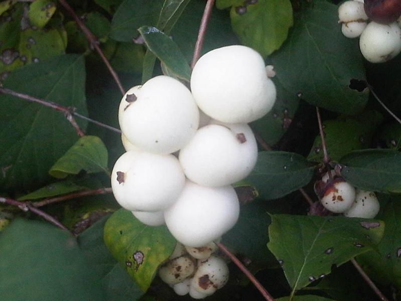 Common snowberry (Symphoricarpos albus) fruits in WWT London Wetland Centre, England.